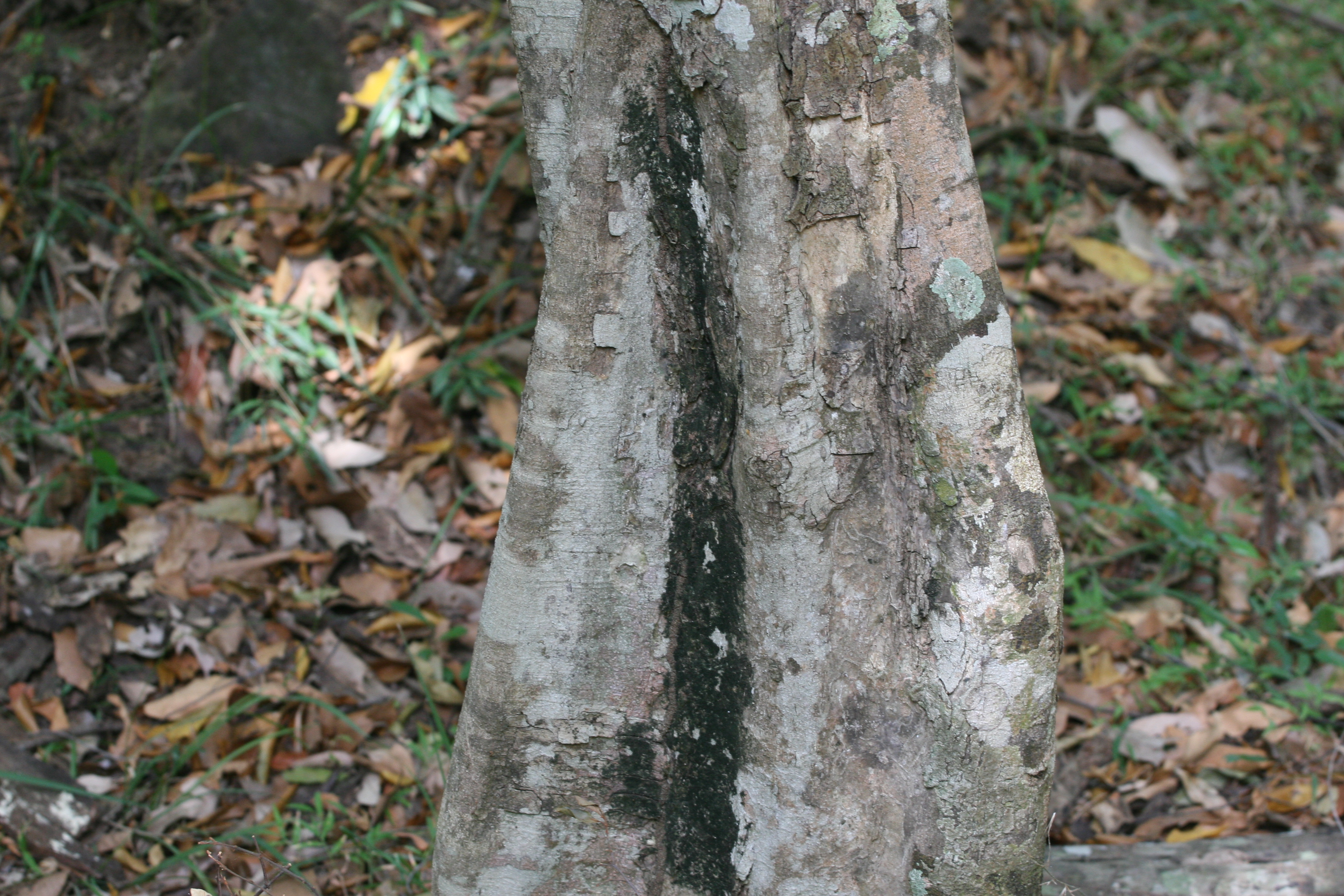 Weeera (වීර) stem